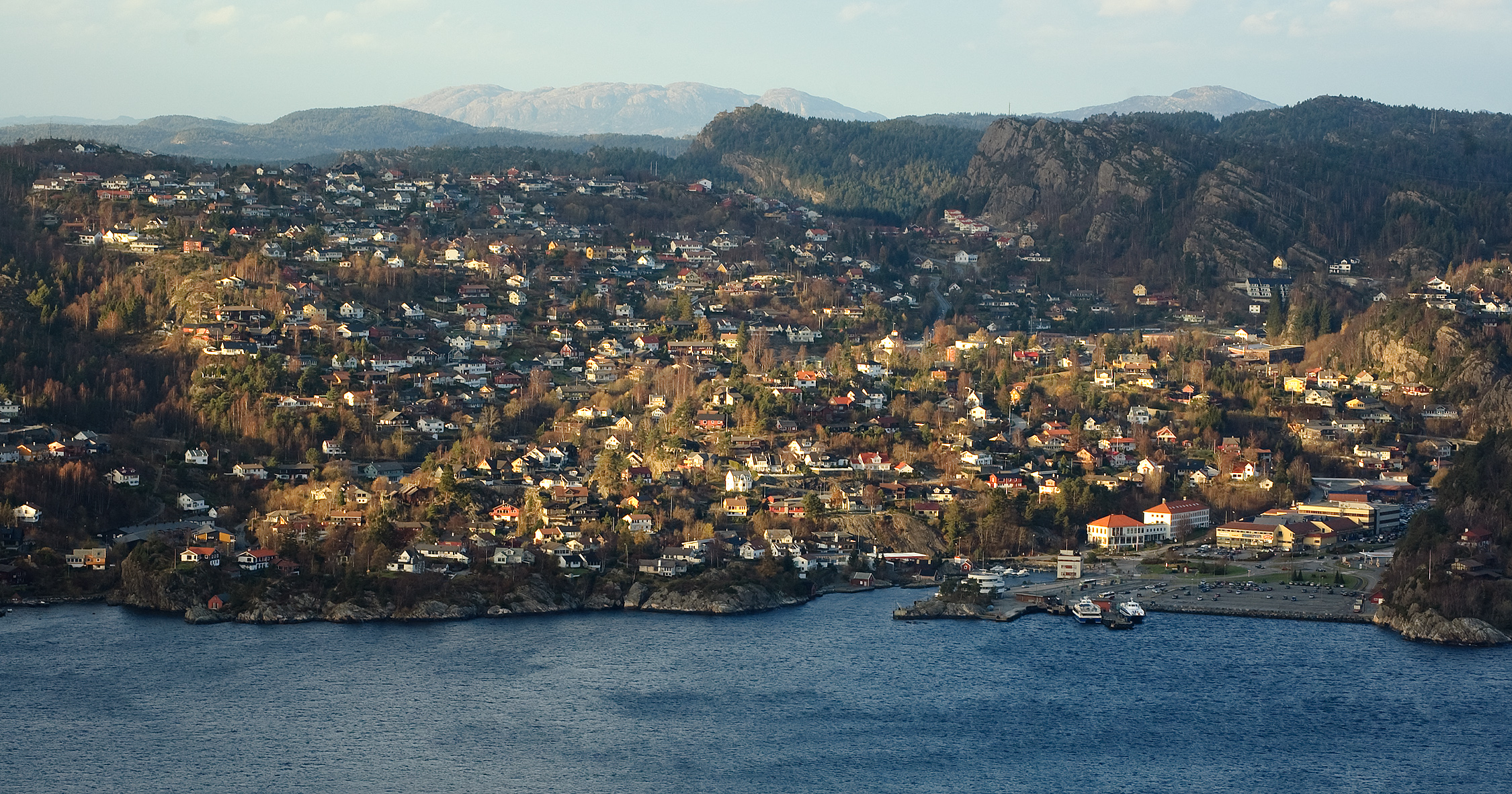 Kleppstø in Askøy municipality, Hordaland, Norway.